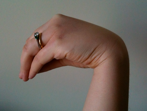 A less than perfect representation of Trousseau's sign of latent tetany. I had my wife do it while she was on the phone, and she didn't actually have hypocalcemia.